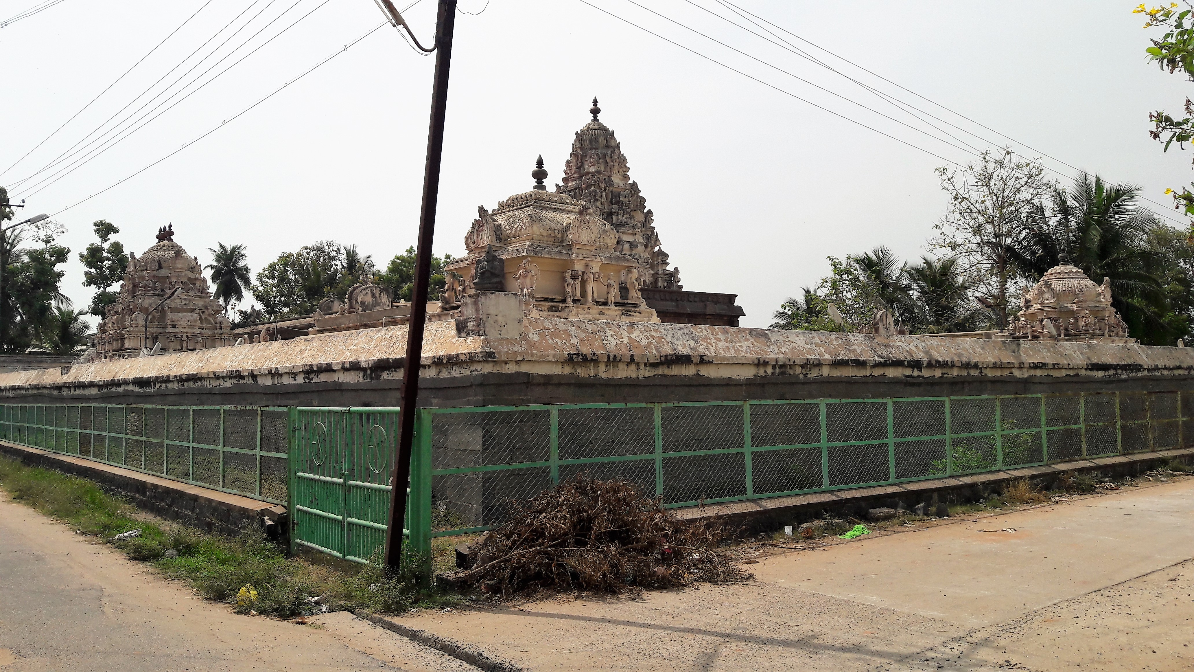 Varadharajaperumal temple, Thirubuvanai. Also called Thothathri temple in Villupuram district, Tamil Nadu, India